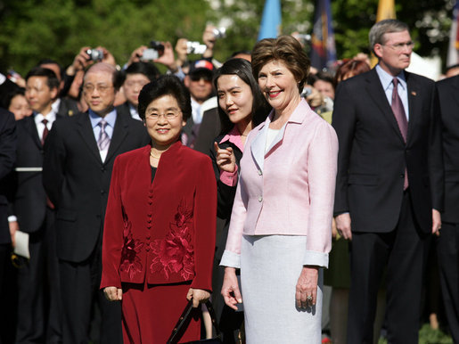 "Mrs. Laura Bush stands with Liu Yongqing, the wife of Chinese President Hu Jintao, during the South Lawn Arrival Ceremony, Thursday, April 20, 2006. White House photo by Shealah Craighead"